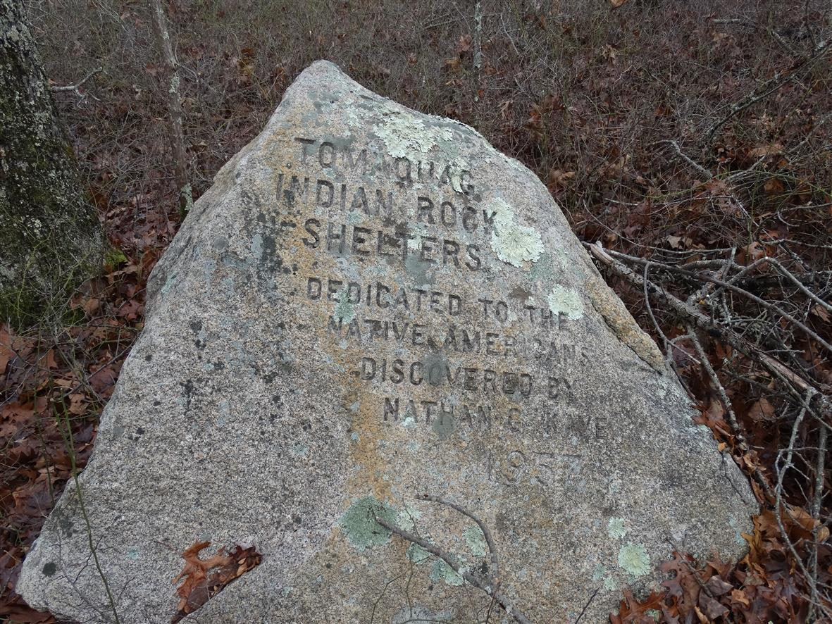 Tomaquag Indian Rock Shelters Dedicated to the Native American, Discovered by Nathan C Kaye.